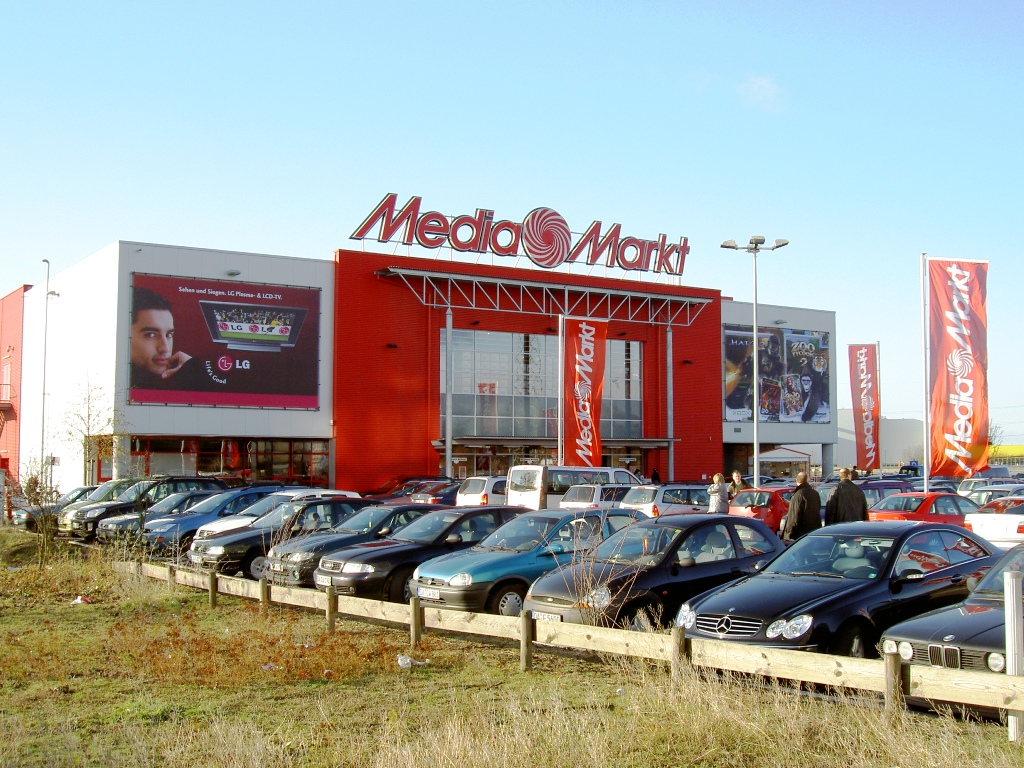 Media Markt Weiterstadt